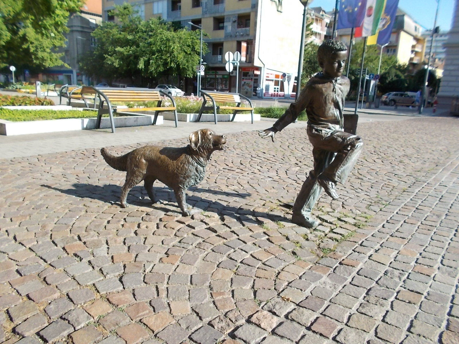 Boy with dog by Sándor Kligl. - Kossuth Square, Szolnok, Jász-Nagykun-Szolnok County, Hungary.